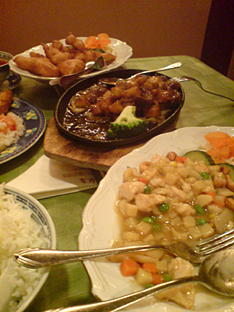 Chinese Kitchen